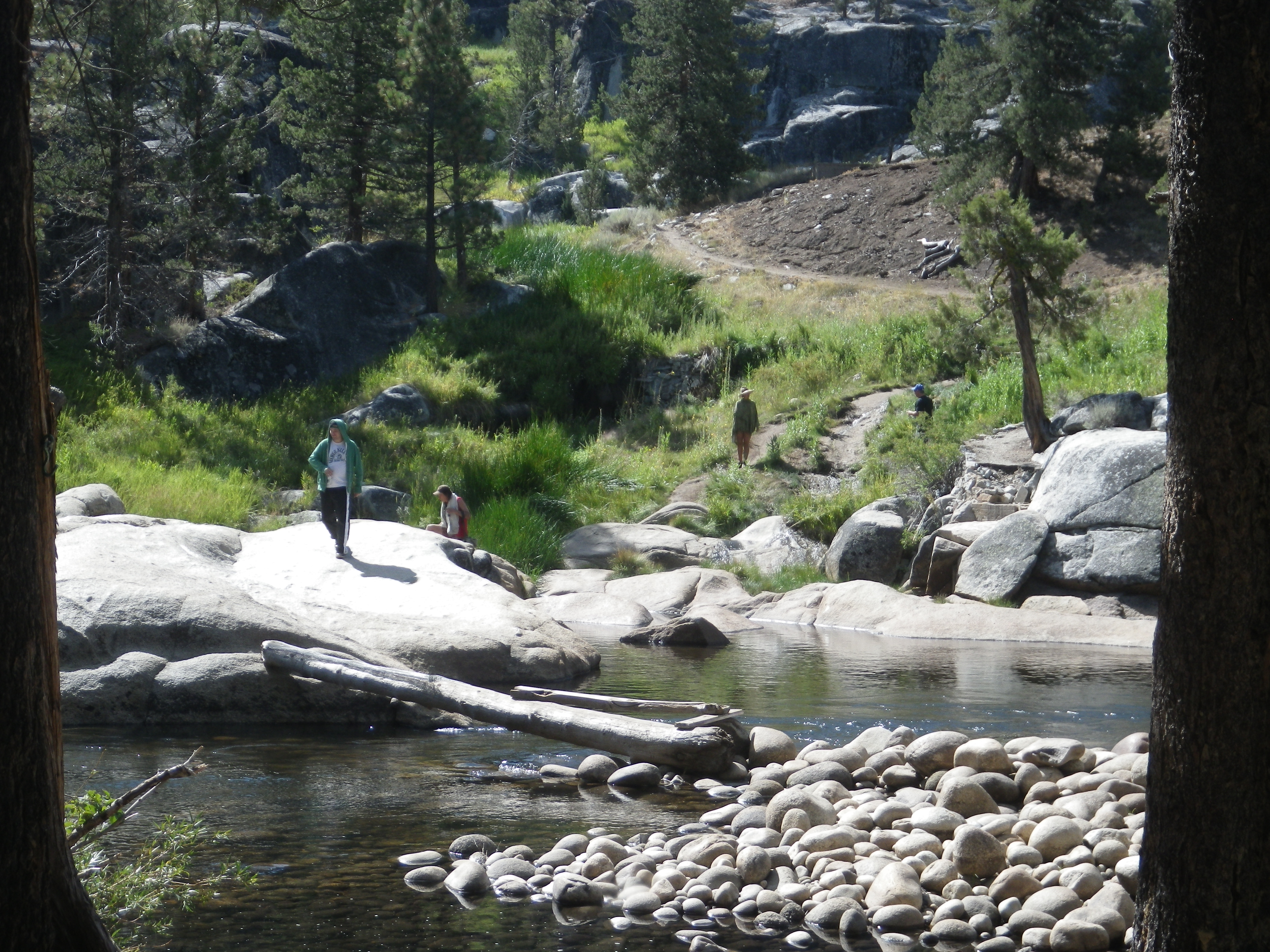 Mono Hot Springs has thermal pools that drain into the San Joaquin River. From the developed area one fords the river to get to the pools.